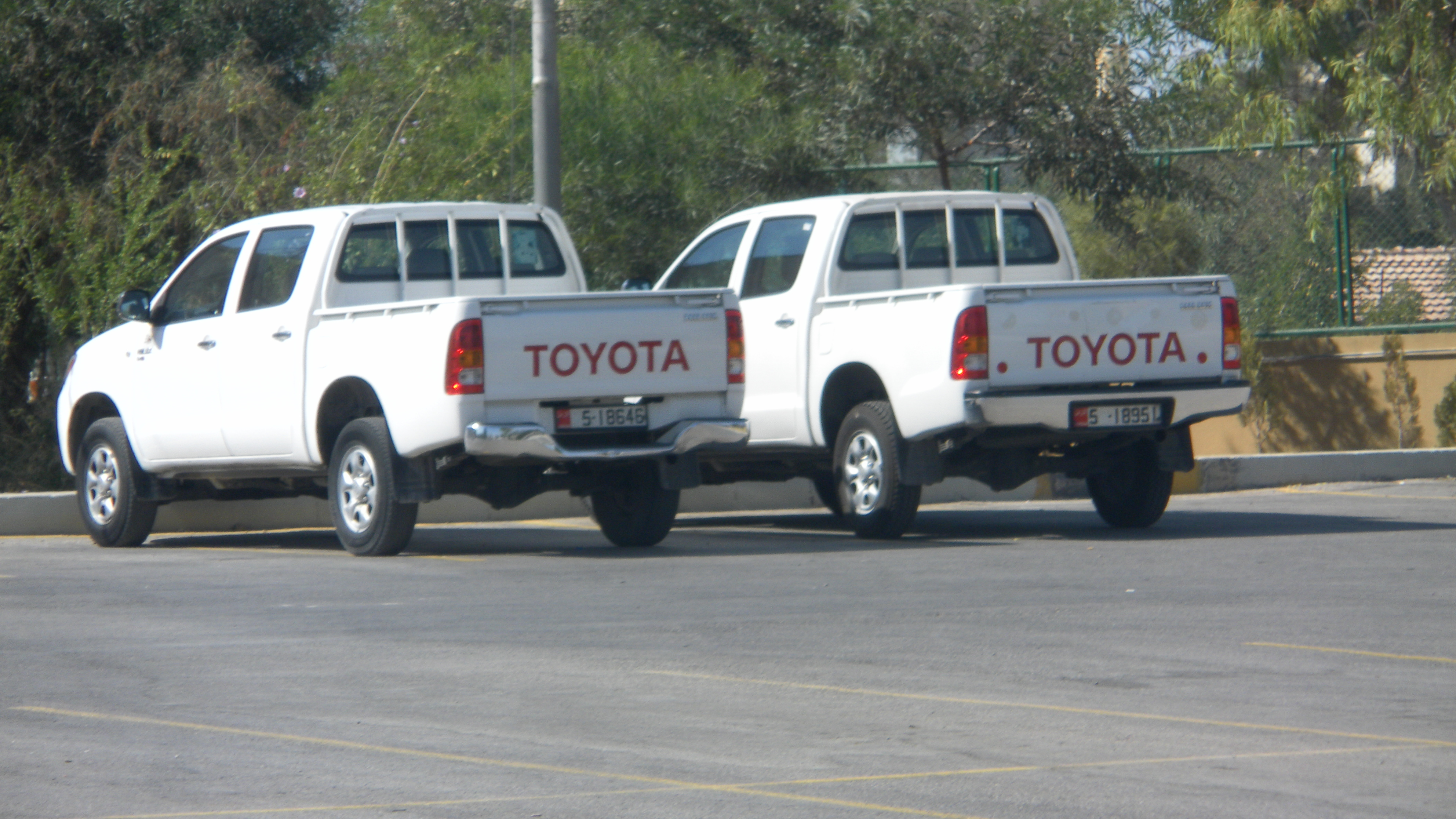 PCP Hilux